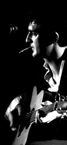 Fair Use Permanent Fatal Error permanentfatalerror olivier manchion